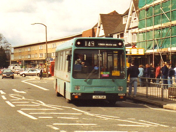 Caves Bus Services J921 TUK, an ACE Cougar with Willowbrook bodywork, operating route 149 in Solihull in April 1994. This was the second of two Cougars built in the early 1990s. Caves closed down in 1999 following the death of one of its proprietors.